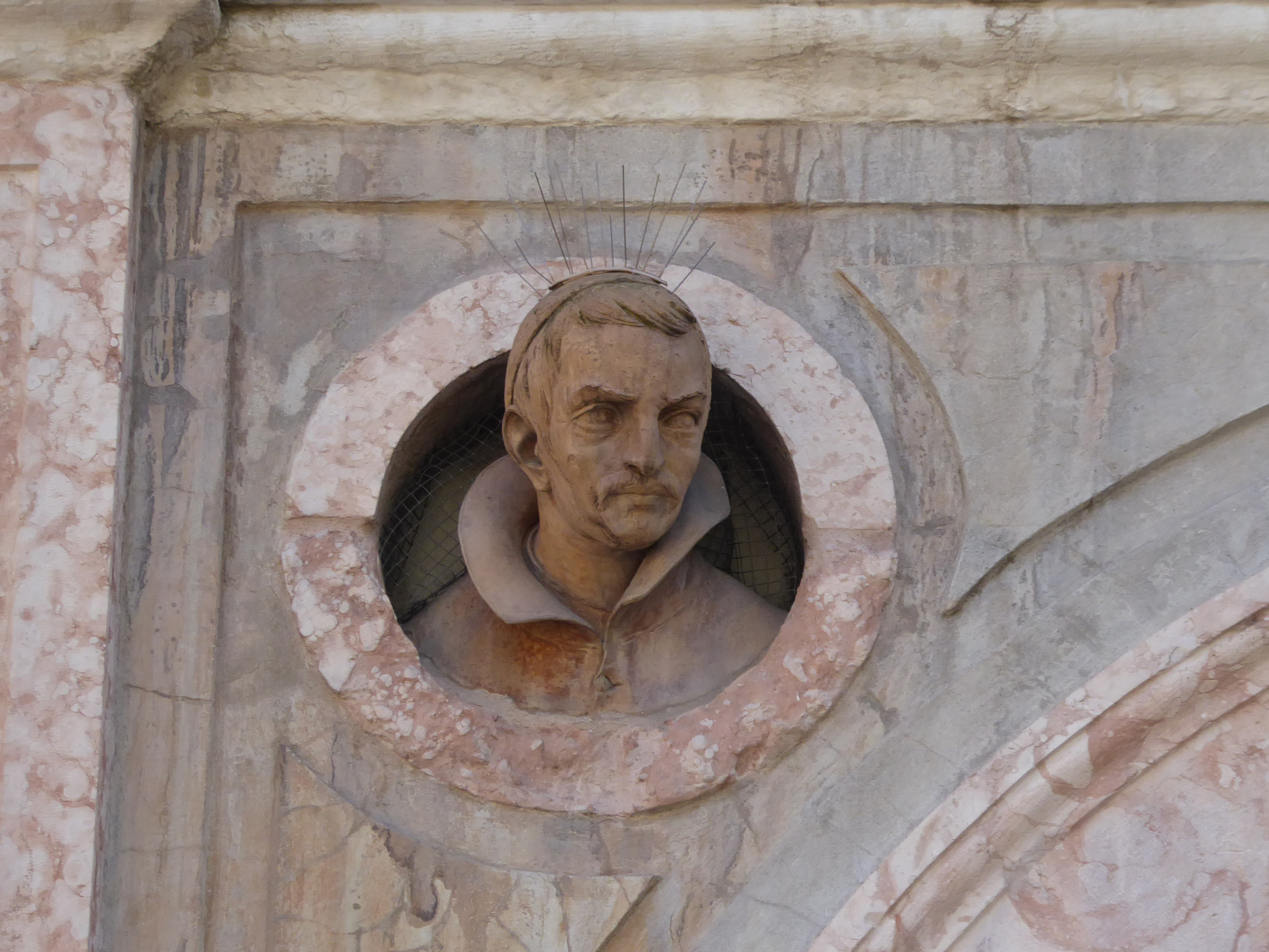 Bust of Andrea Pozzo on the facade of Palazzo Ranzi, in Trento, by Andrea Malfatti